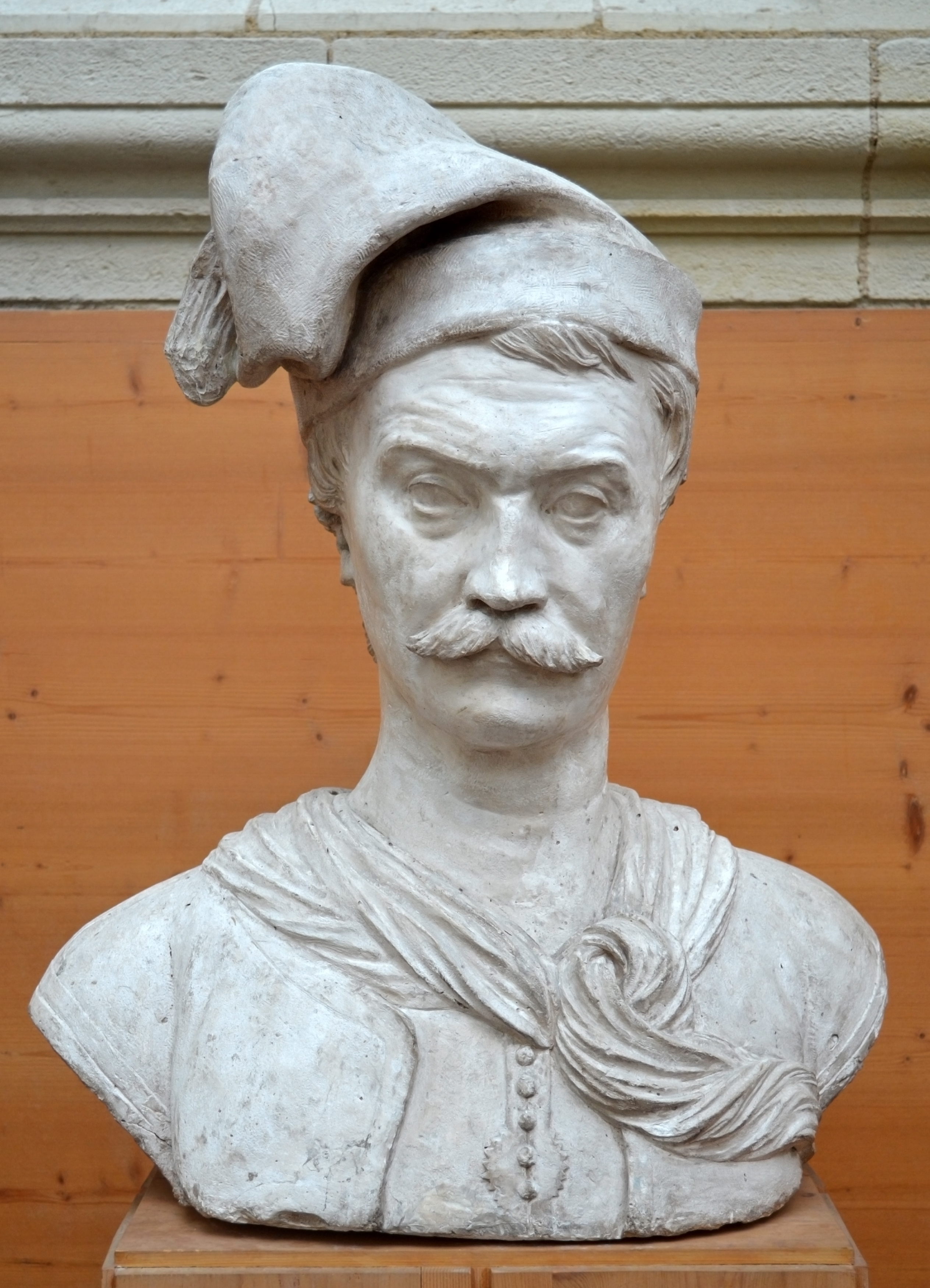 Bust of Constantine Kanaris by french sculptor David d'Angers (1852). Exhibited in David d'Angers gallery, Angers, France